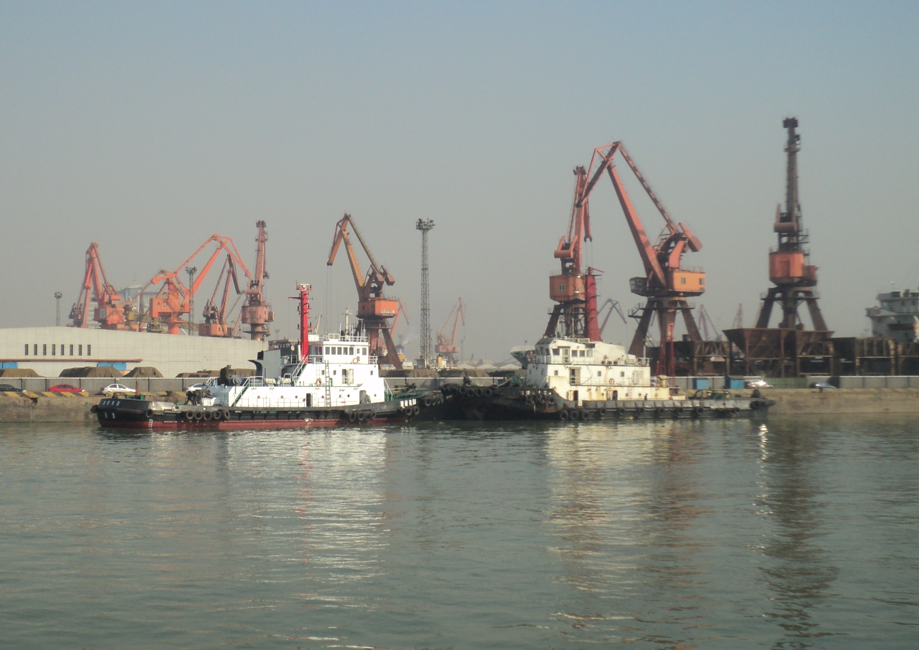 Two tugs of the Tianjin Port Tug & Lighter Company berthed in the First Pier Tug Wharf.